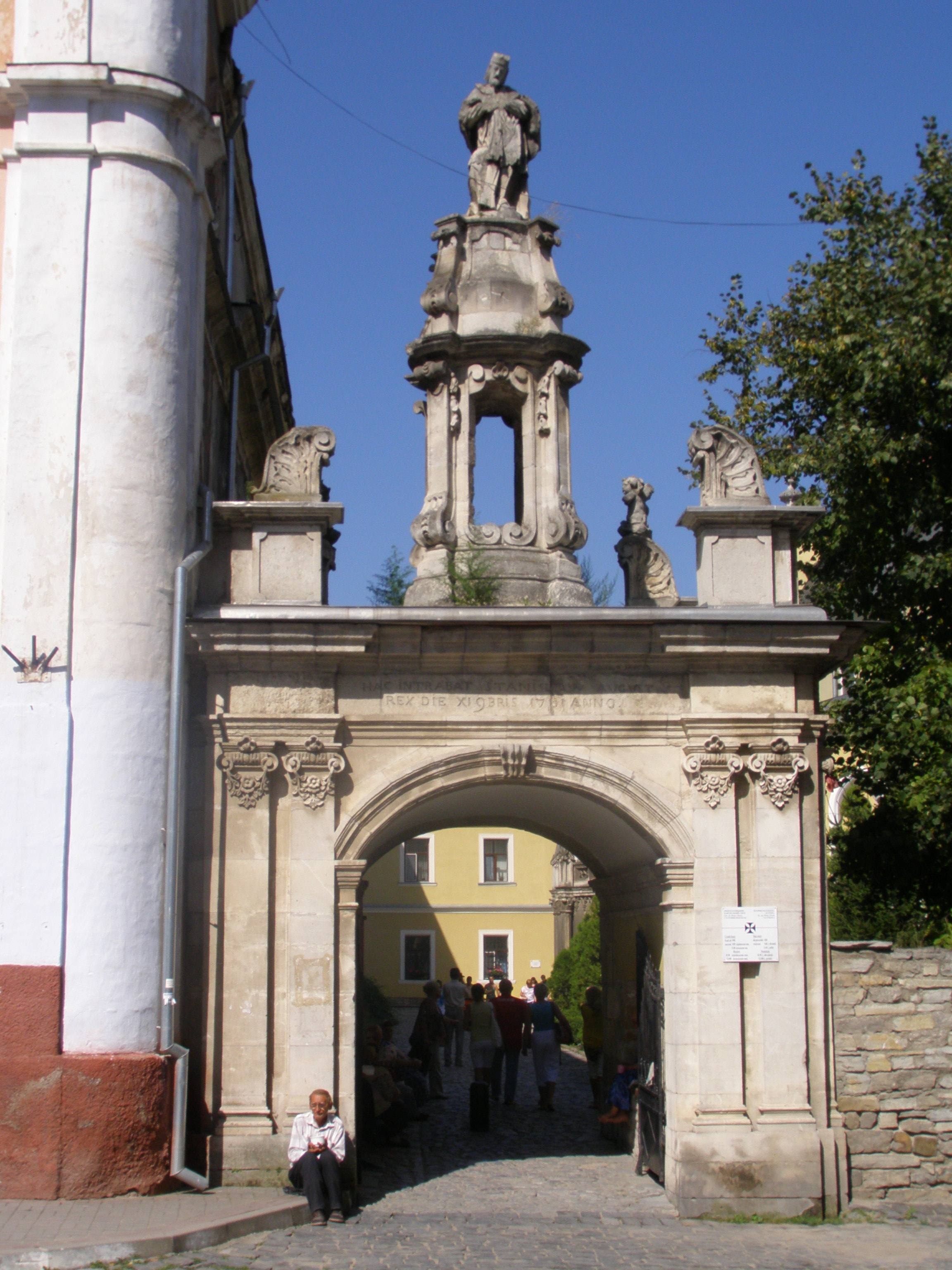 Kamianets-Podilskyi, Gate to the area of St. Peter and Paul Cathedral